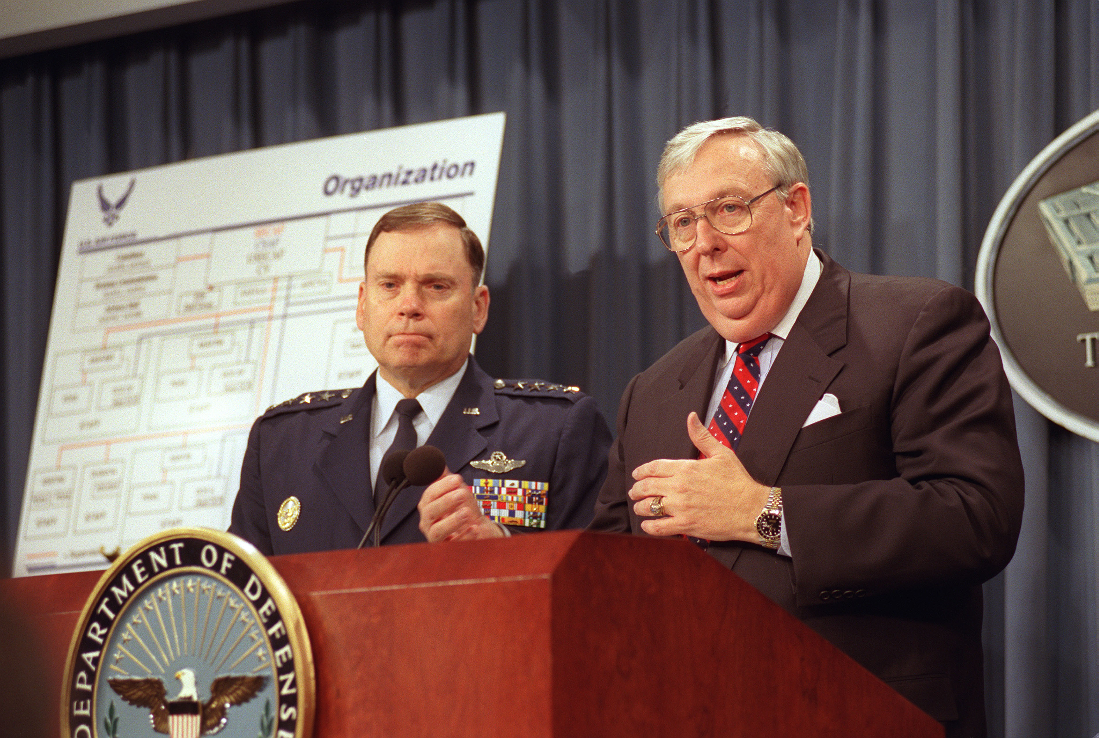 Secretary of the Air Force James Roche, joined by Air Force Chief of Staff Gen. John Jumper (left), briefs Pentagon reporters, Dec. 18, 2001, on the planned reorganization of the Headquarters of the U.S. Air Force. The reorganization effort evolved from three imperatives laid down in a speech made by Secretary of Defense Donald Rumsfeld on the day before the Sept. 11 terrorist attacks against the United States.